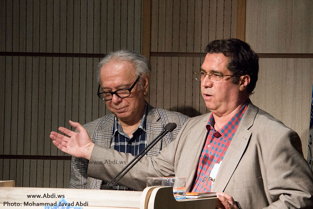 علی دهباشی در کنار جلال خالقی مطلق -شب خالقی مطلق - 1393